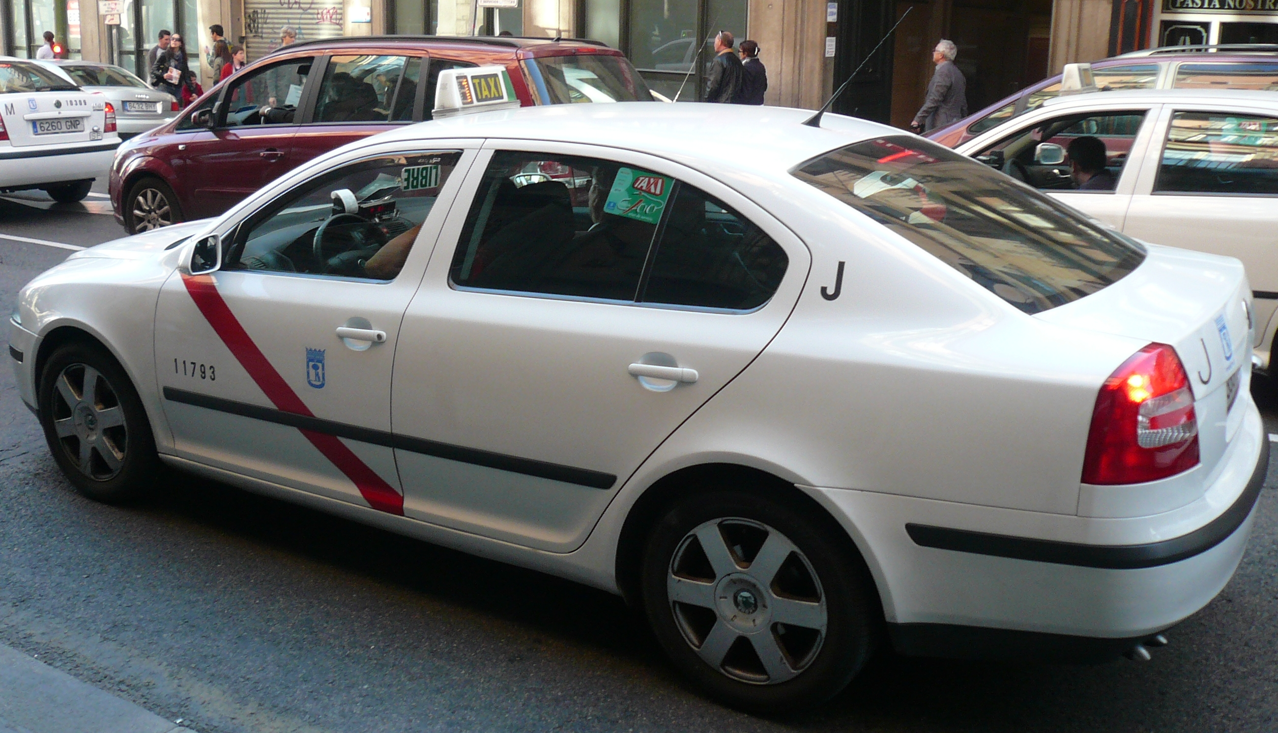 Taxi in Madrid